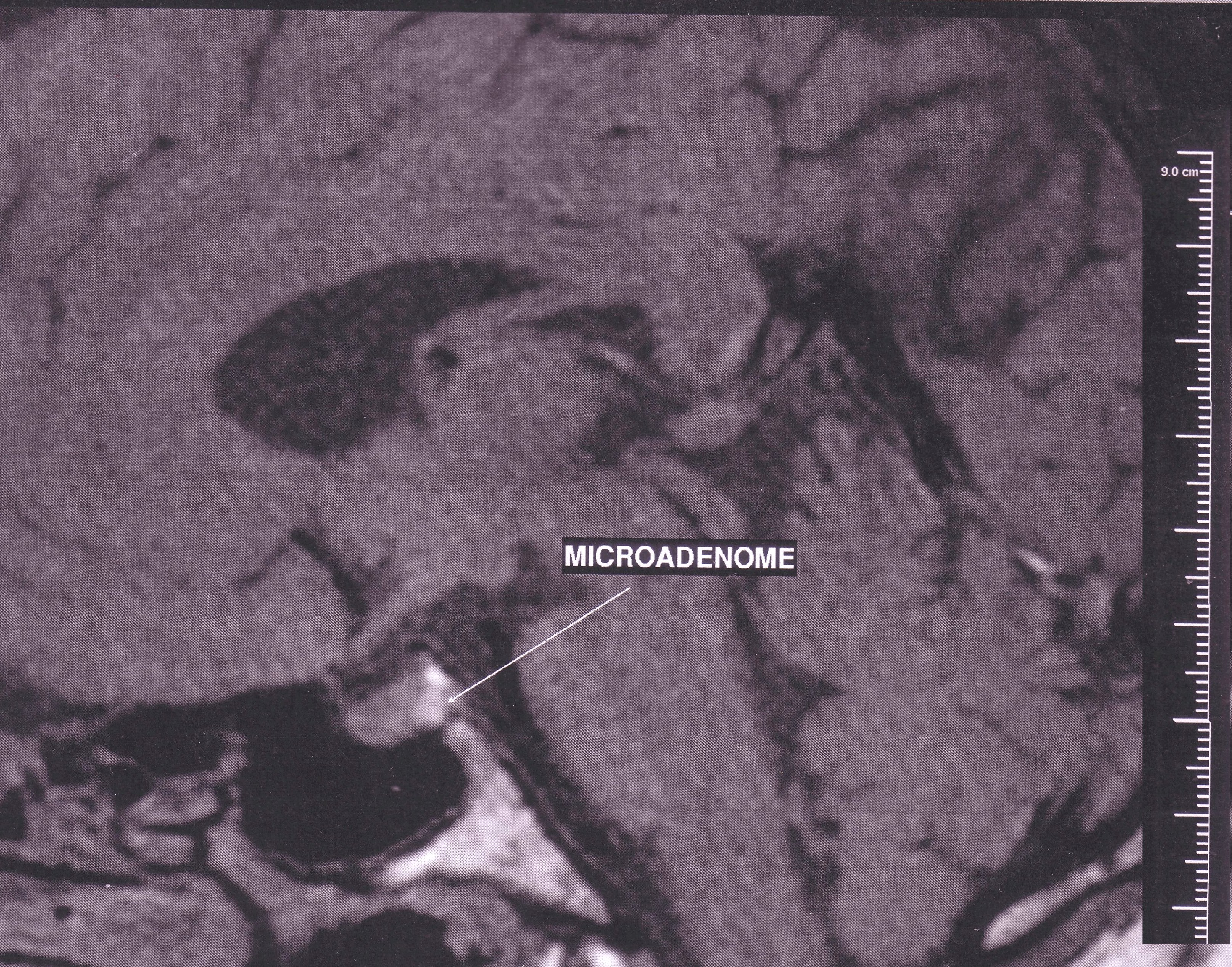 Ignore the arrow!! It points on the normal Neurohypophysis!